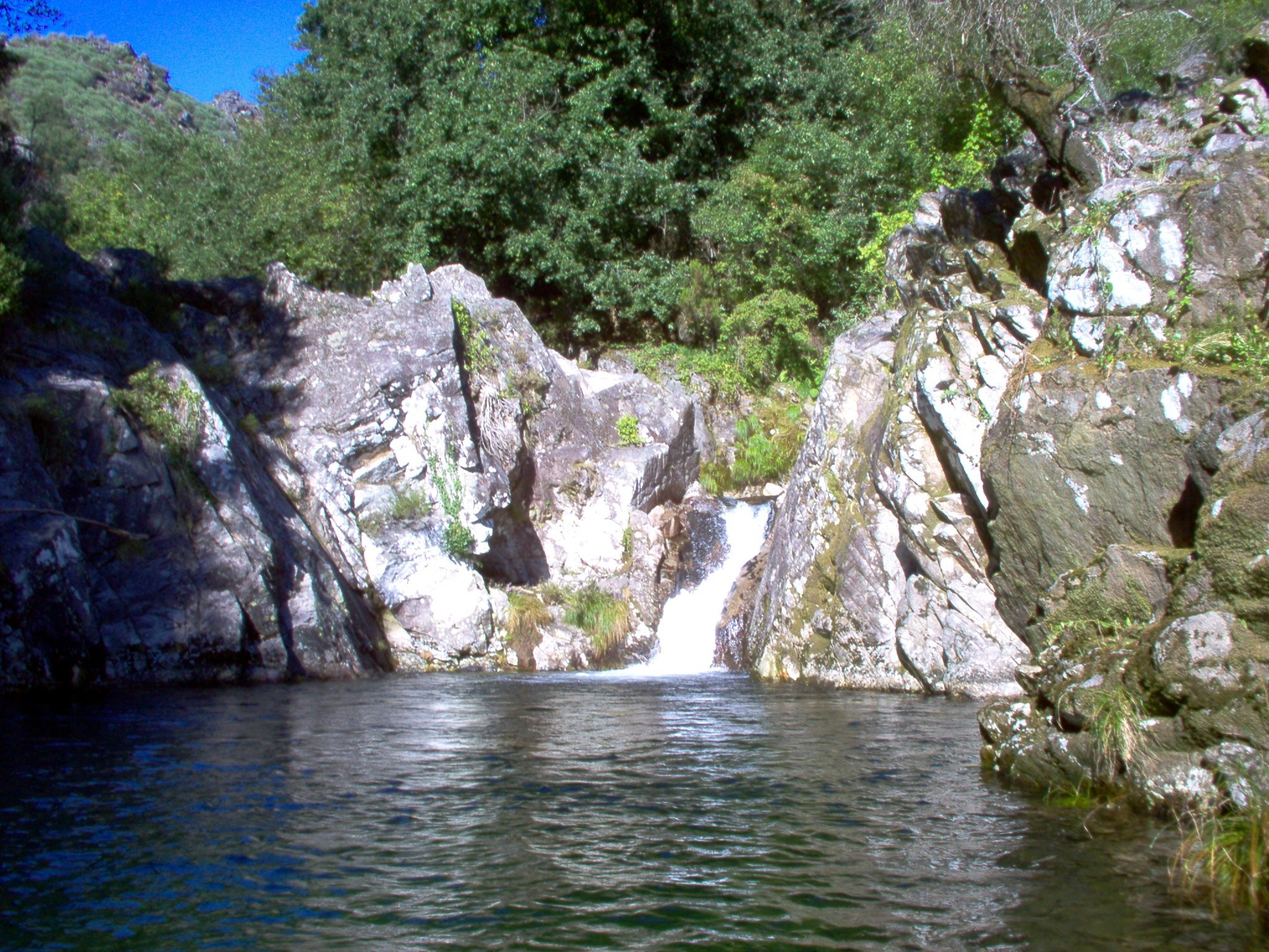 An lagon in Adrão river, Soajo